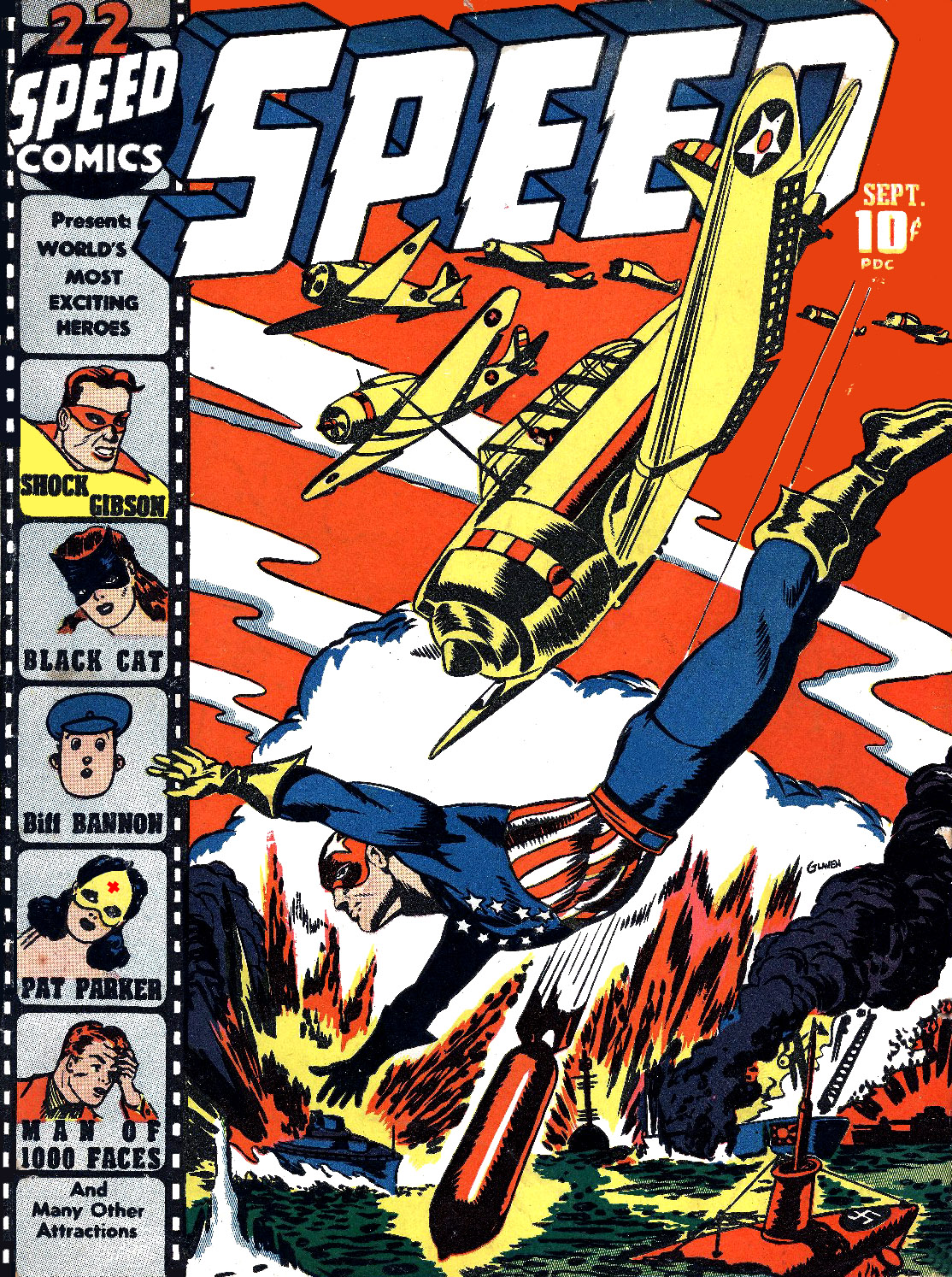 Captain Freedom storms into action on the cover of Speed Comics number 22 (Harvey, September 1942). After Joe Simon and Jack Kirby joined the Harvey bullpen, Captain Freedom began to take on the appearance of his main inspiration, Captain America.